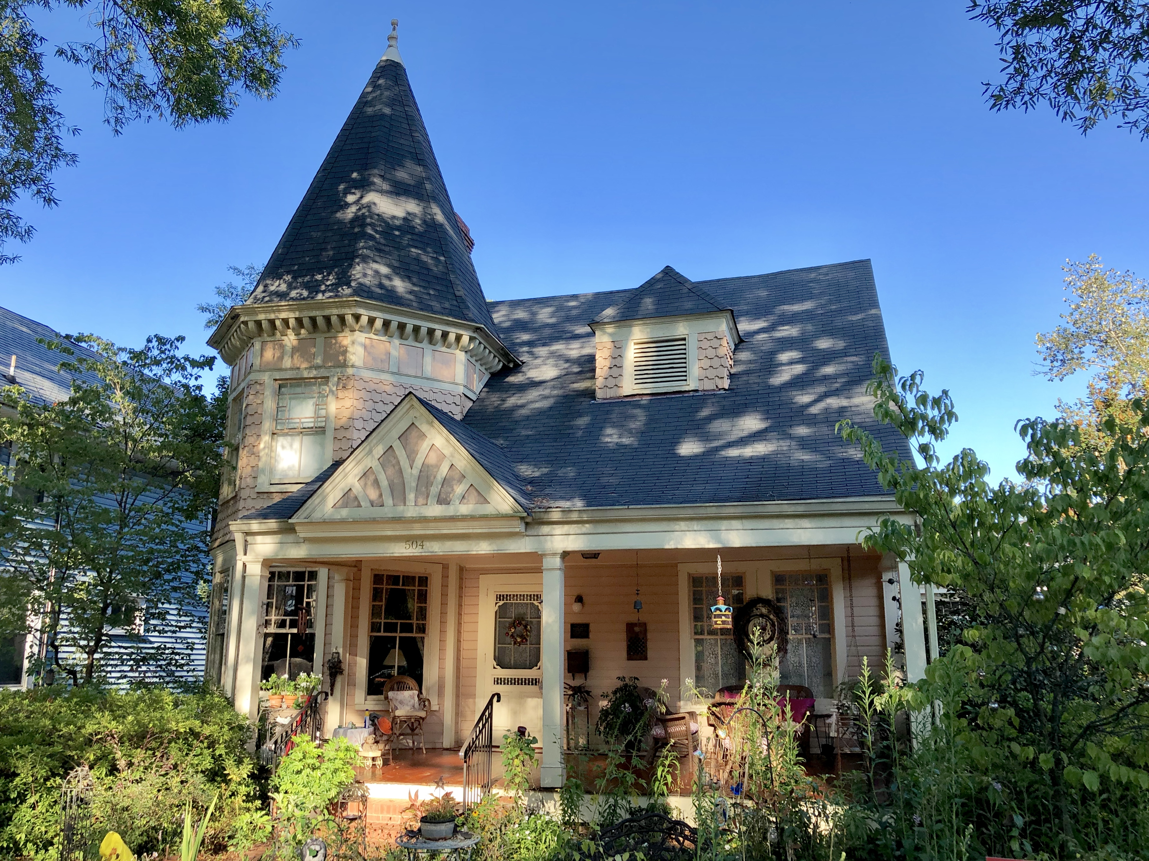 This is the Crowell House, constructed in 1891 on Watts Street in the Trinity Park neighborhood of Durham, North Carolina. The house was listed on the National Register of Historic Places in 1979.